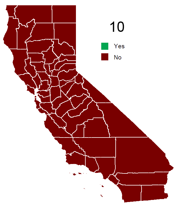 Electoral results by county.